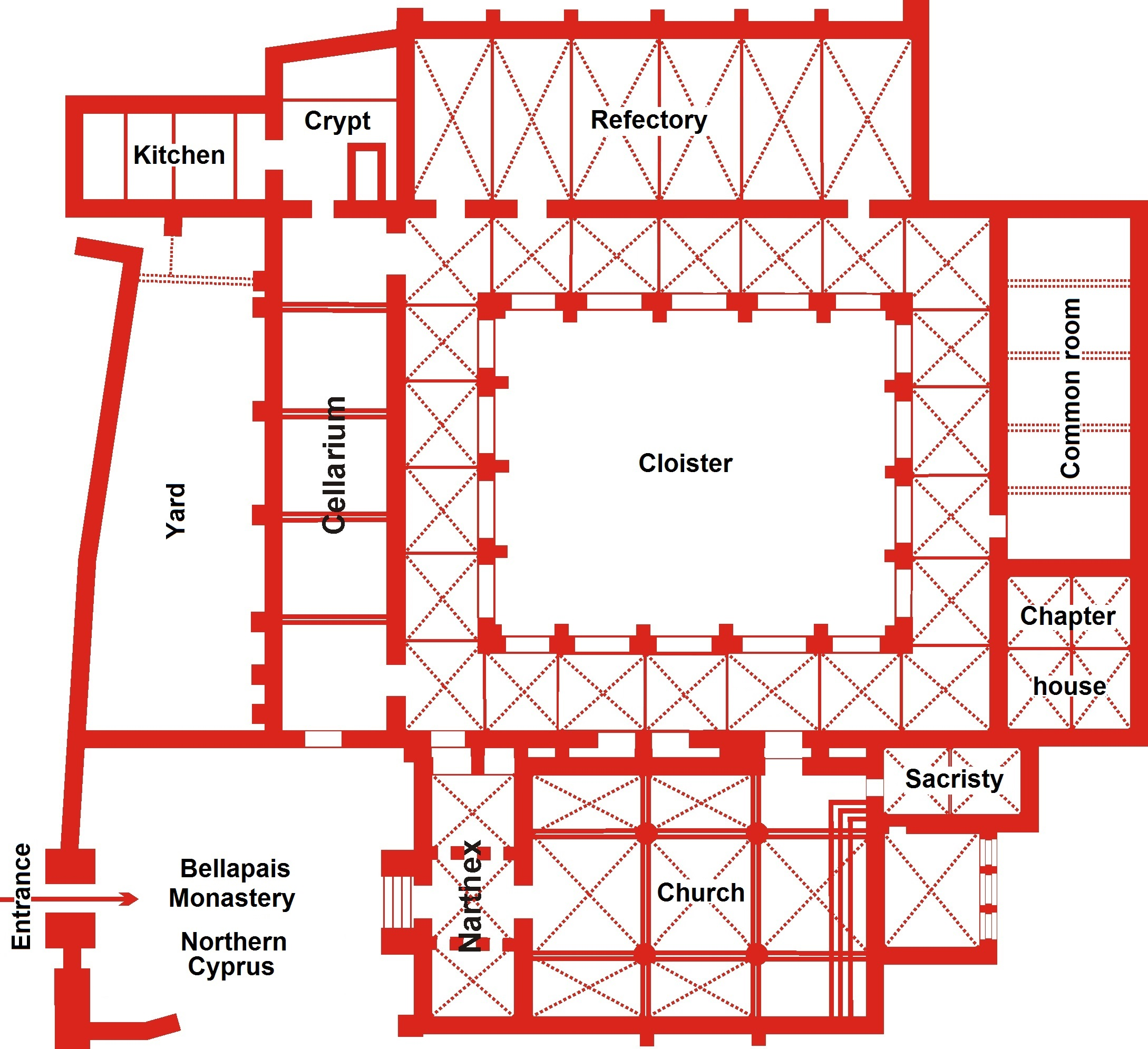 Plan of the Abbey Bellapais, Northern Cyprus